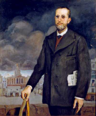 Fermín Salvochea